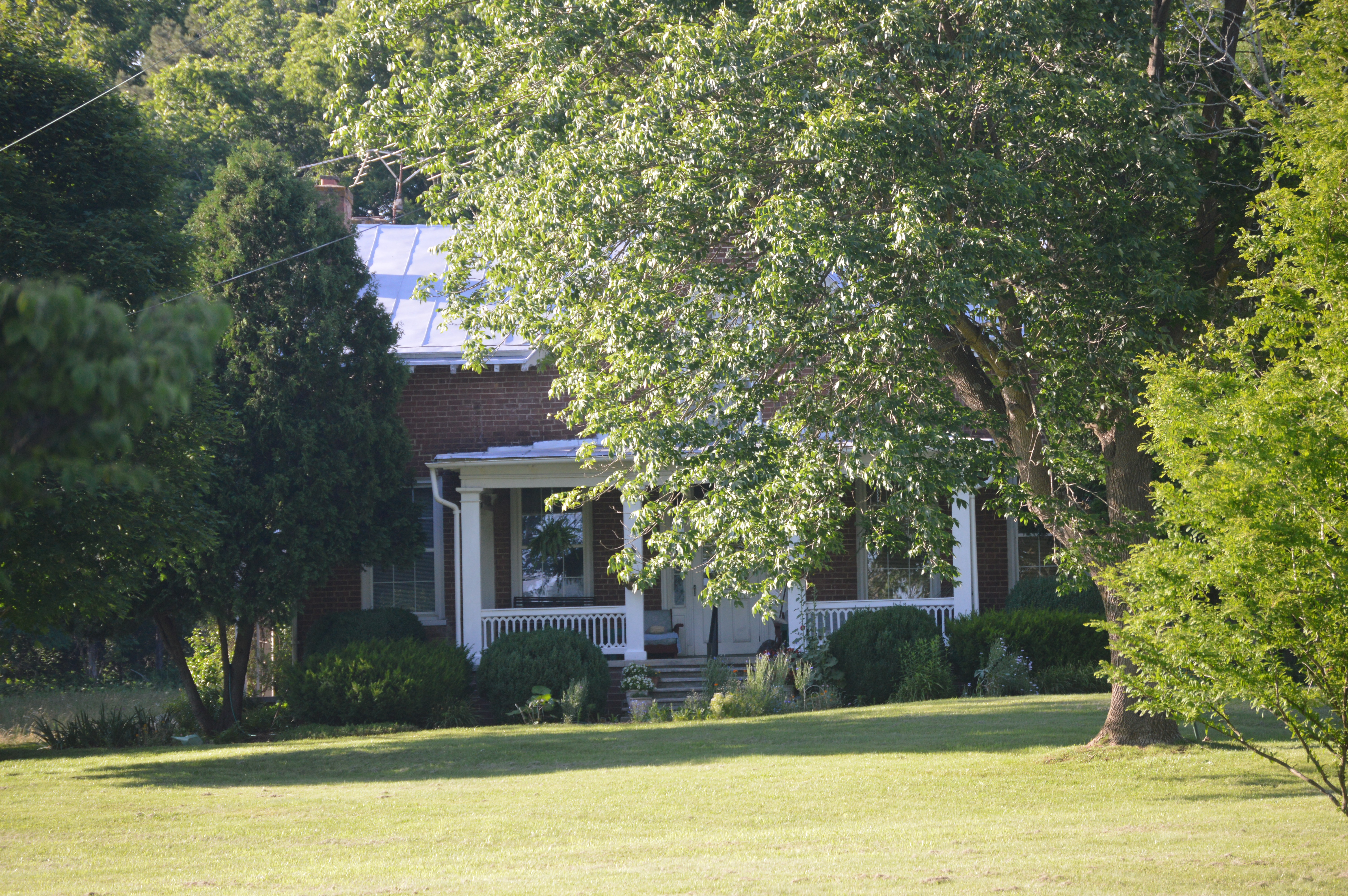 Roadside view of the Falling Spring Presbyterian Manse, located at 650 Falling Spring Road northwest of Glasgow in Rockbridge County, Virginia, United States. Built in 1857, it is listed on the National Register of Historic Places.